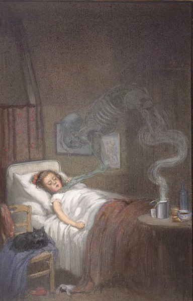 A ghostly skeleton trying to strangle a sick child; symbolising the disease diphtheria. Watercolour by R. Cooper.